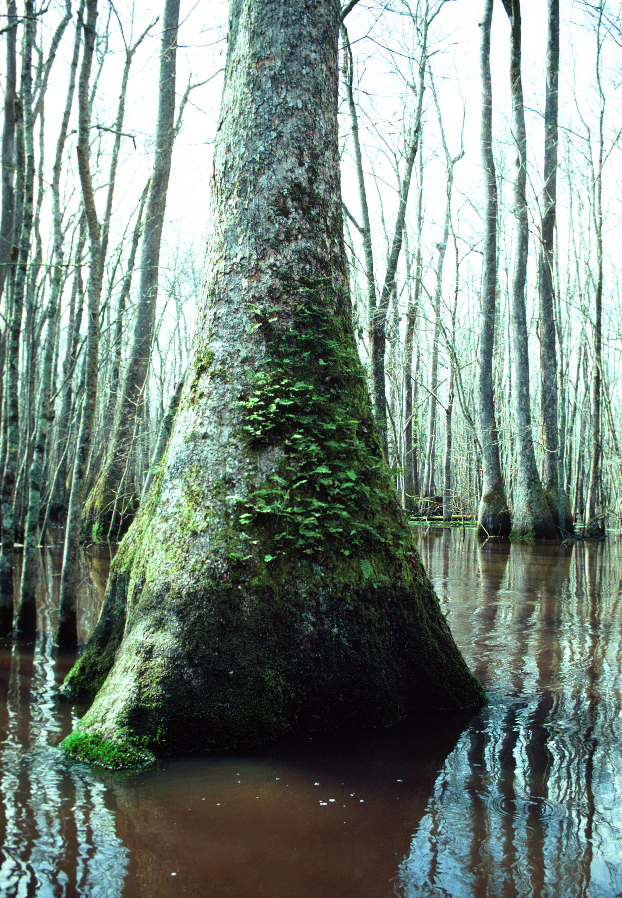 Nyssa aquatica tree, showing characteristic heavily buttressed base, with epiphytic ferns. Alligator River National Wildlife Refuge, North Carolina.